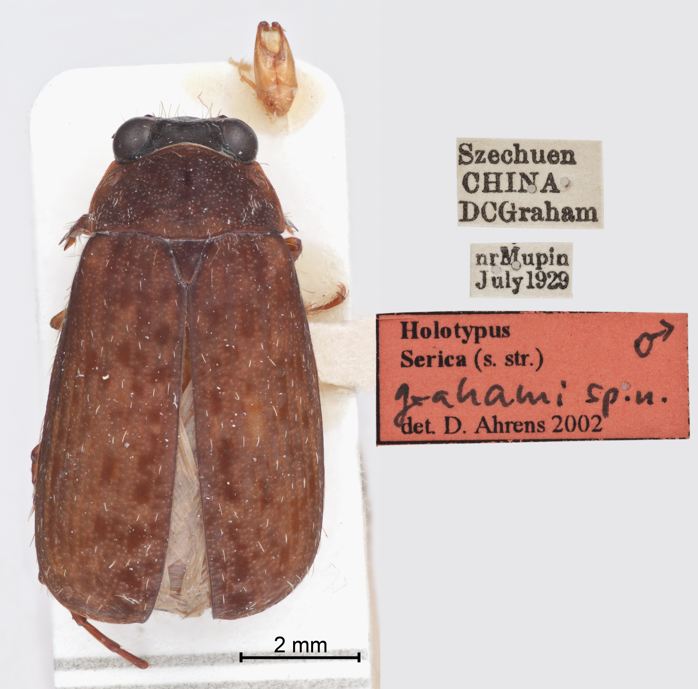 Holotype specimen for Serica grahami Ahrens, 2005.[1] Specimen collected by D.C.Graham in Szechwan, China in 1929 and sent to the Smithsonian Institution. Specimen in the collection of the Department of Entomology, National Museum of Natural History, Smithsonian Institution.